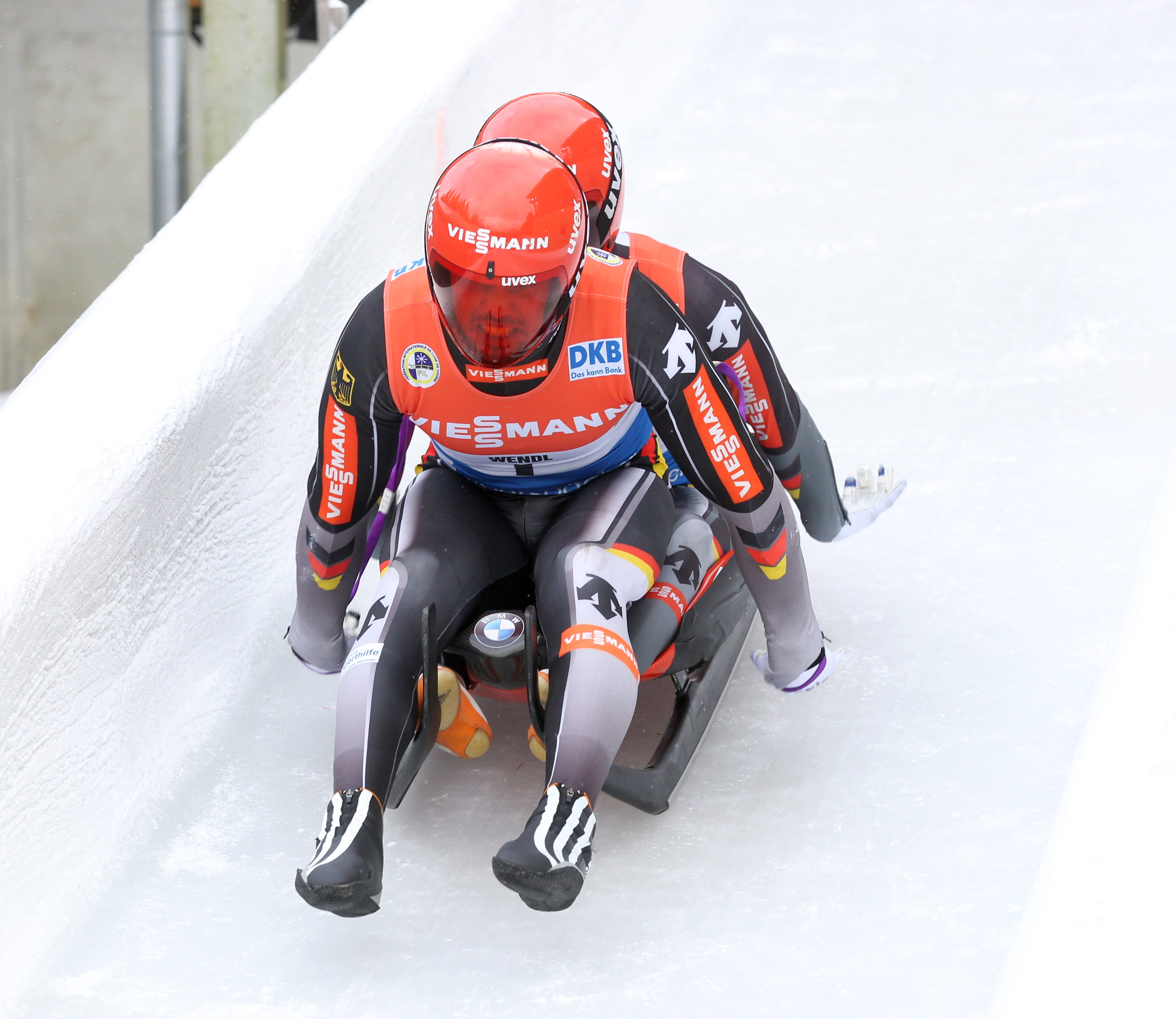 Tobias Wendl and Tobias Arlt training at the 2017 Luge World Cup in Altenberg